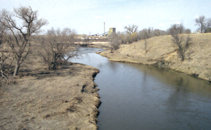 Photograph by Tim Kiser. The Whetstone River near Big Stone City in Grant County, South Dakota, 7 April 1996.